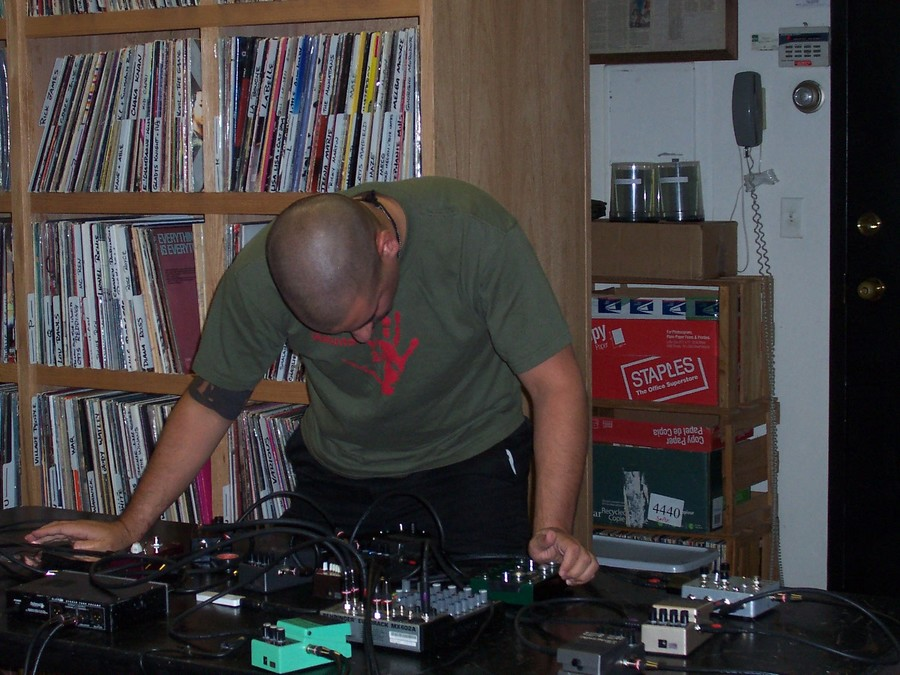 Picture of SICKNESS performing in RRRecords store 9/24/05; taken by myself.